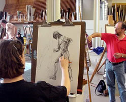 Photo taken in a Life Drawing class at the Lyme Academy College of Fine Arts by Jim Falconer with permission of students and instructor, Jerry Weiss (in red).